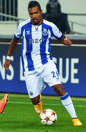 Alex Sandro Lobo Silva